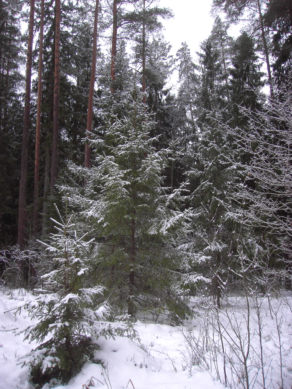 The southern side of the Rūdiškės Forest in winter